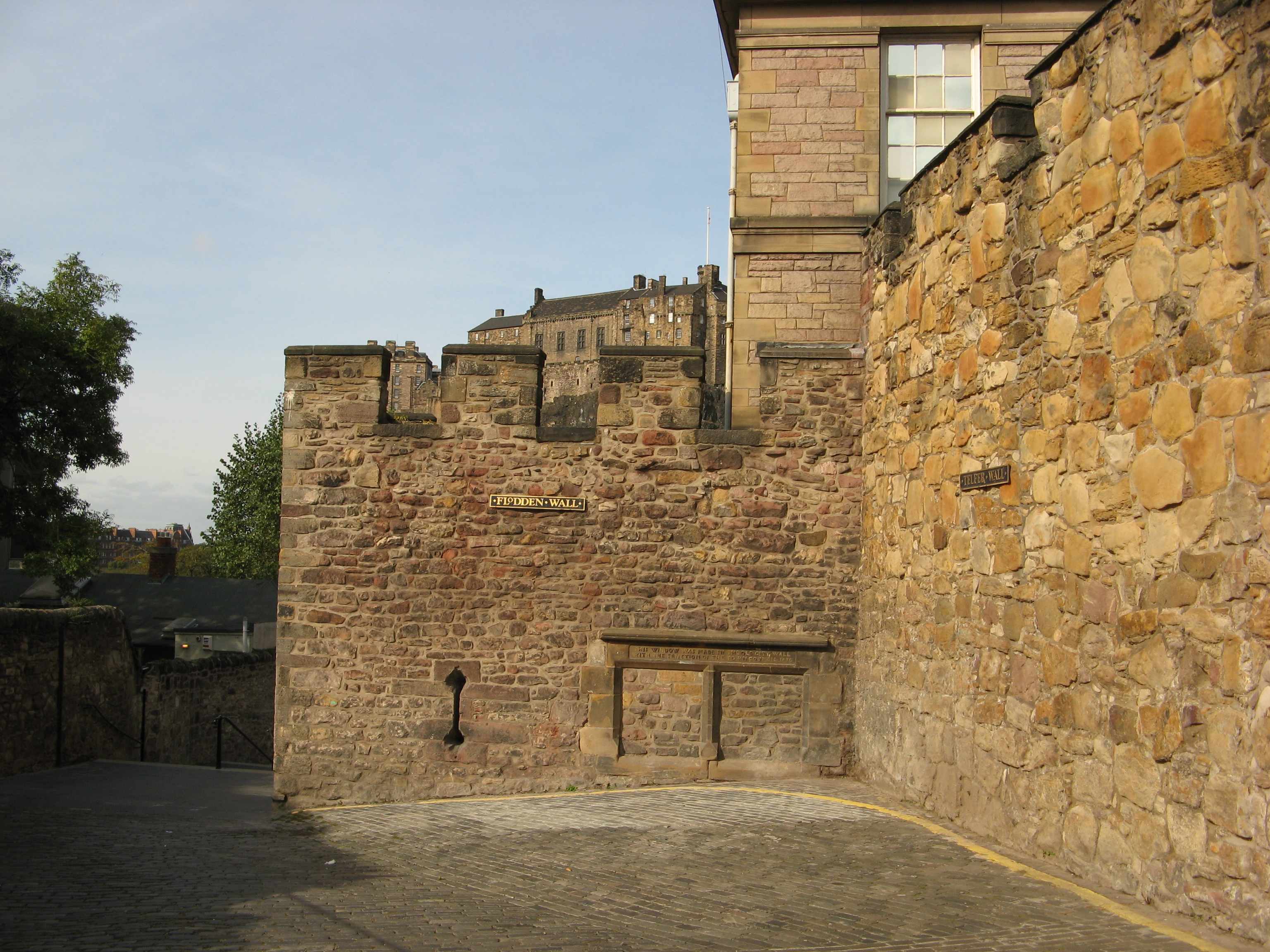 Reduced bastion of the 16th-century Flodden Wall with Edinburgh Castle behind and the 17th-century Telfer Wall on the right